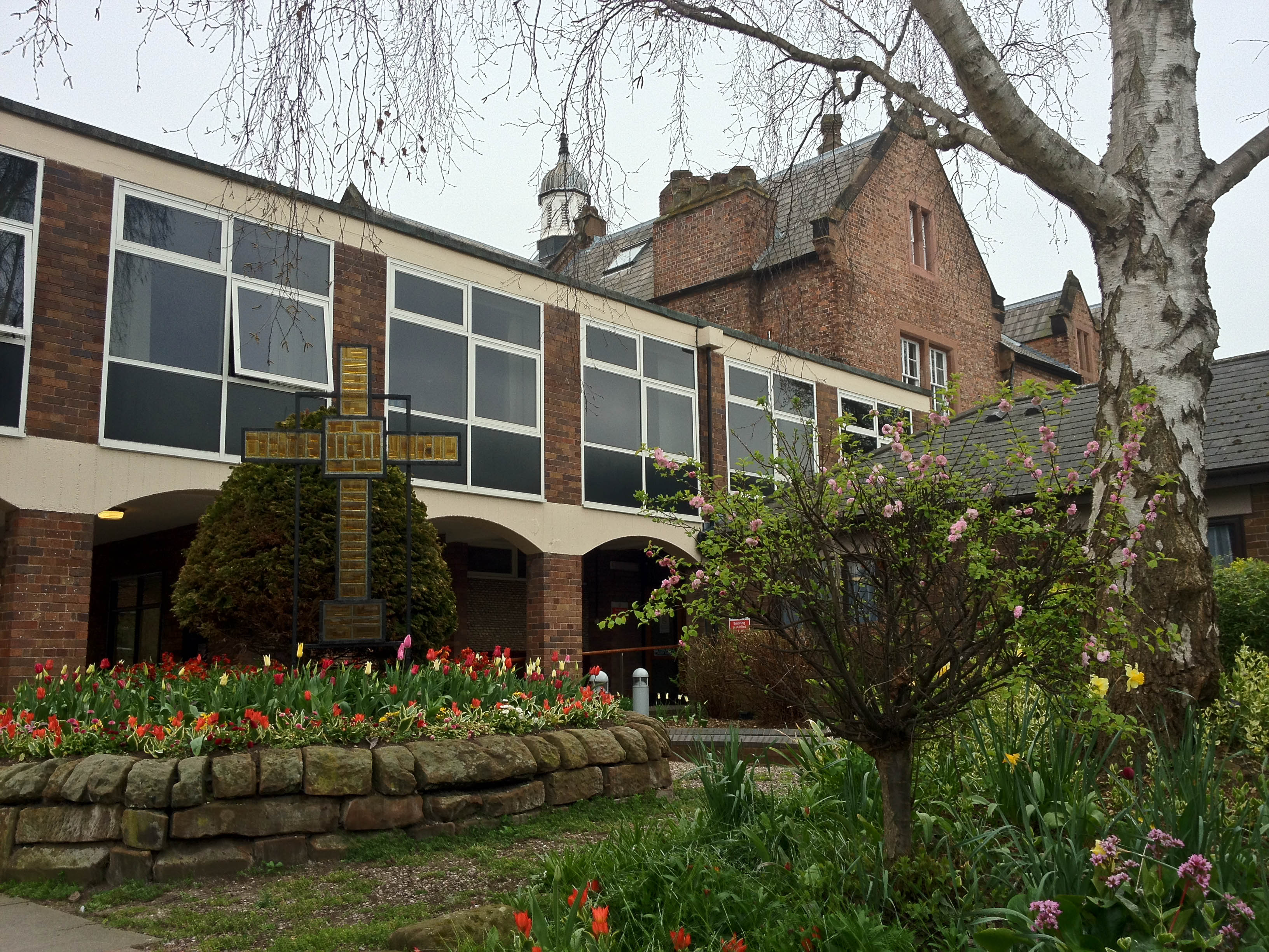 Cross - University of Chester.